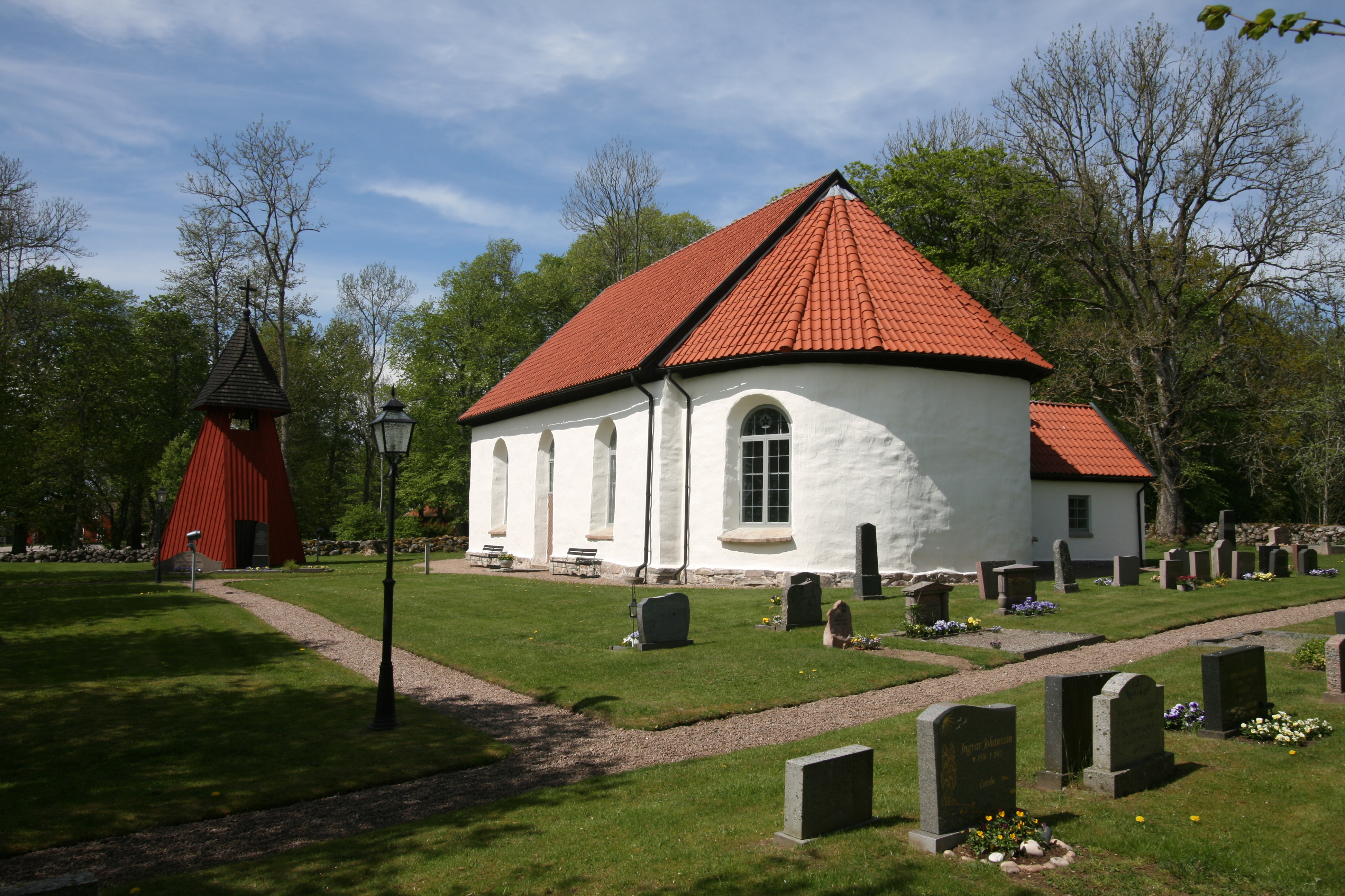 Södra Björke church